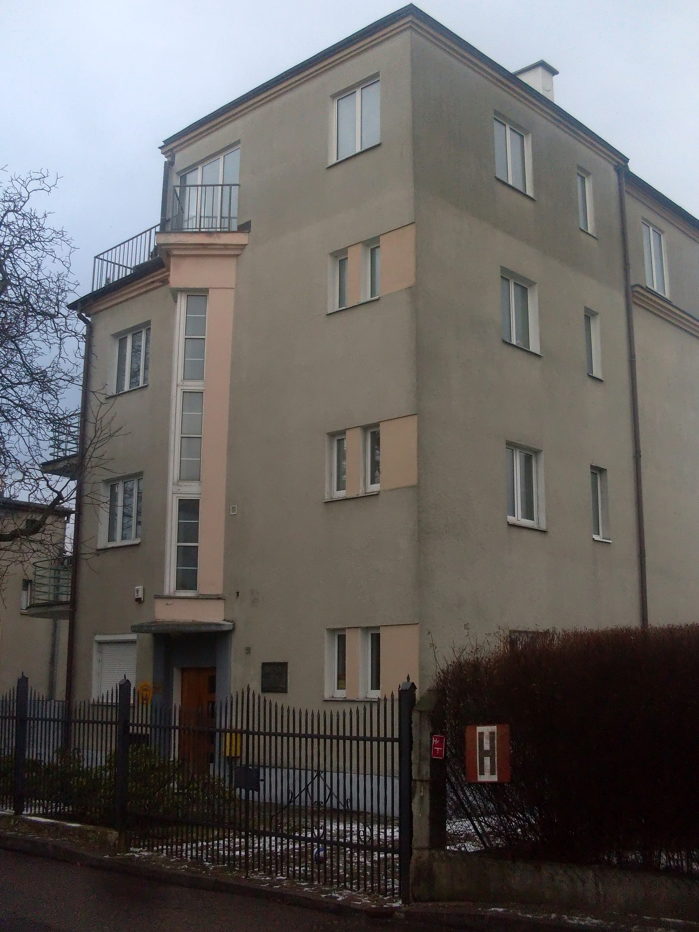 The house in Gdynia, Karol Olgierd Borchardt lived in. Districts of Kamienna Góra.